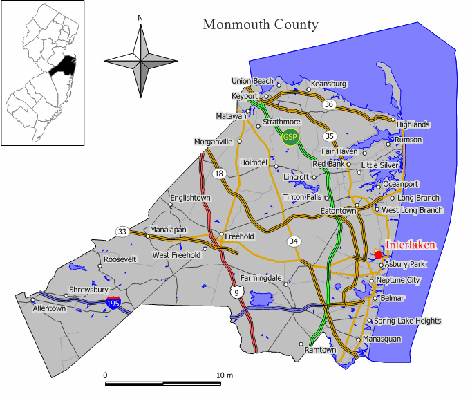 Source: Jim Irwin